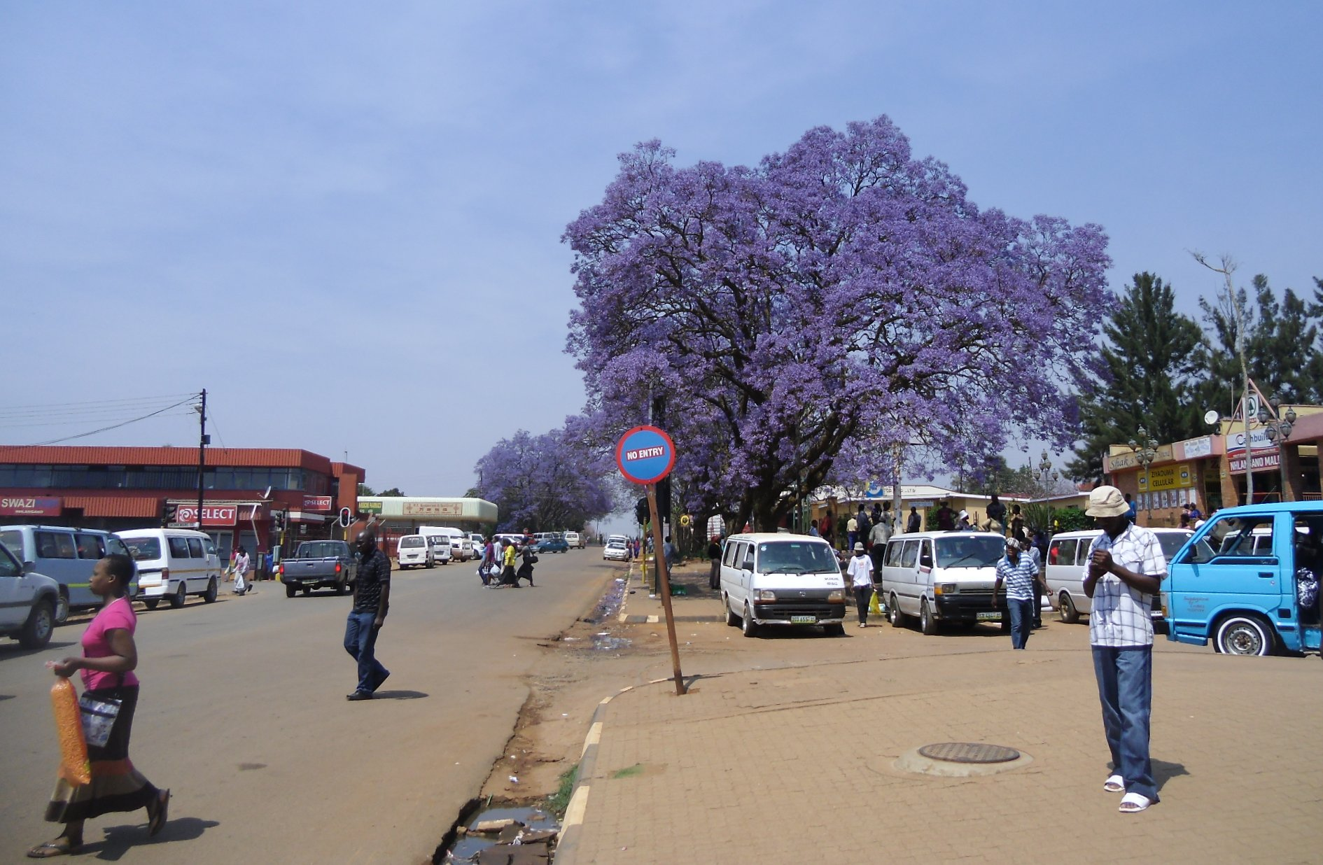 town center of Nhlangano, Swaziland with flowering Jacaranda trees